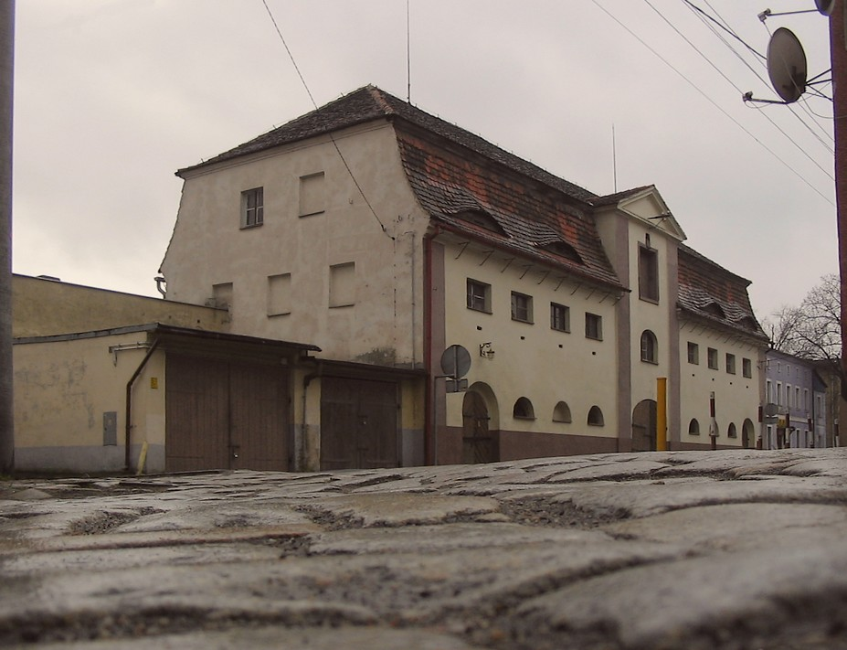 Salt warehouse building from the 18th century. Nowa Sól, Poland